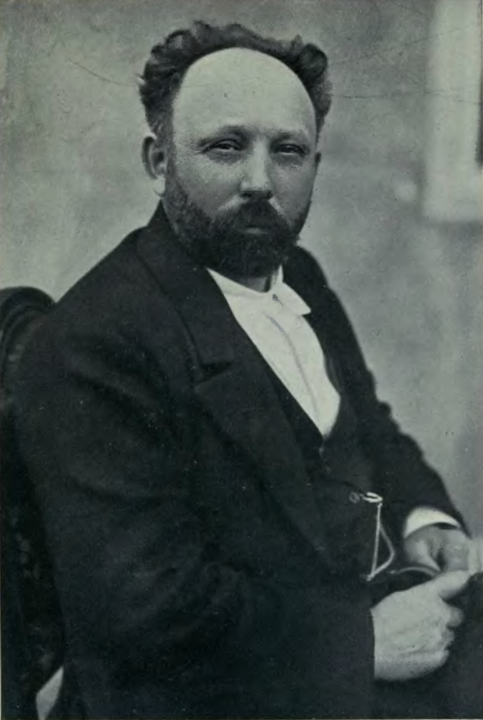 Alexander Csizmadia, assistant commissar for agriculture in the Hungarian Soviet government, 1919.